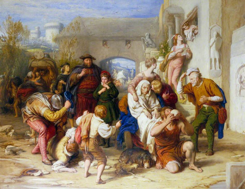 "Seven Ages of Man" painting